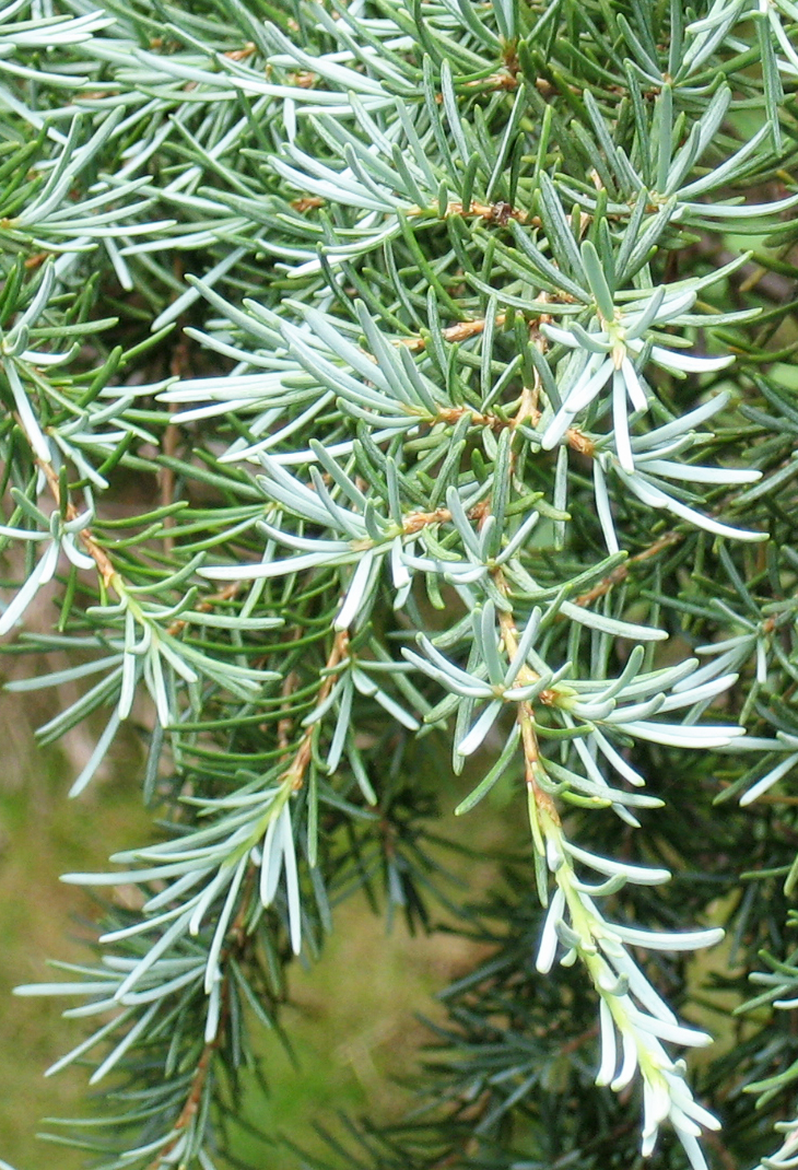 Tsuga mertensiana foliage. Cultivated, Kyloe Wood, Northumberland, UK